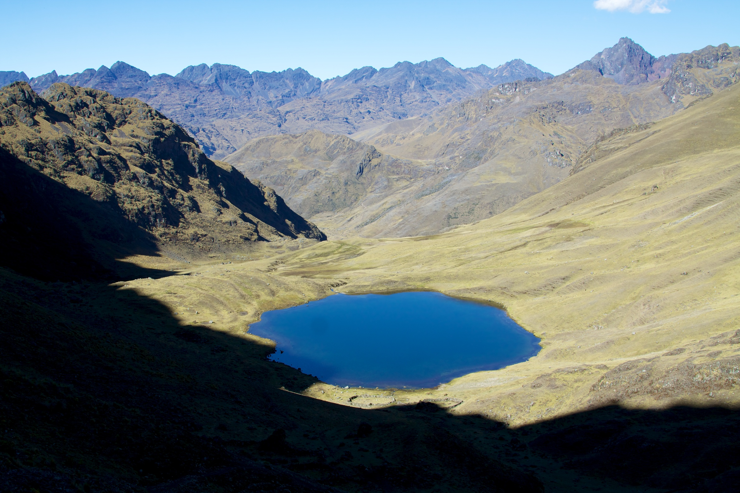 Heading up the 2nd pass, we passed another gorgeous alpine lake (Add. note: The name of the lake is Qiwñaqucha.)